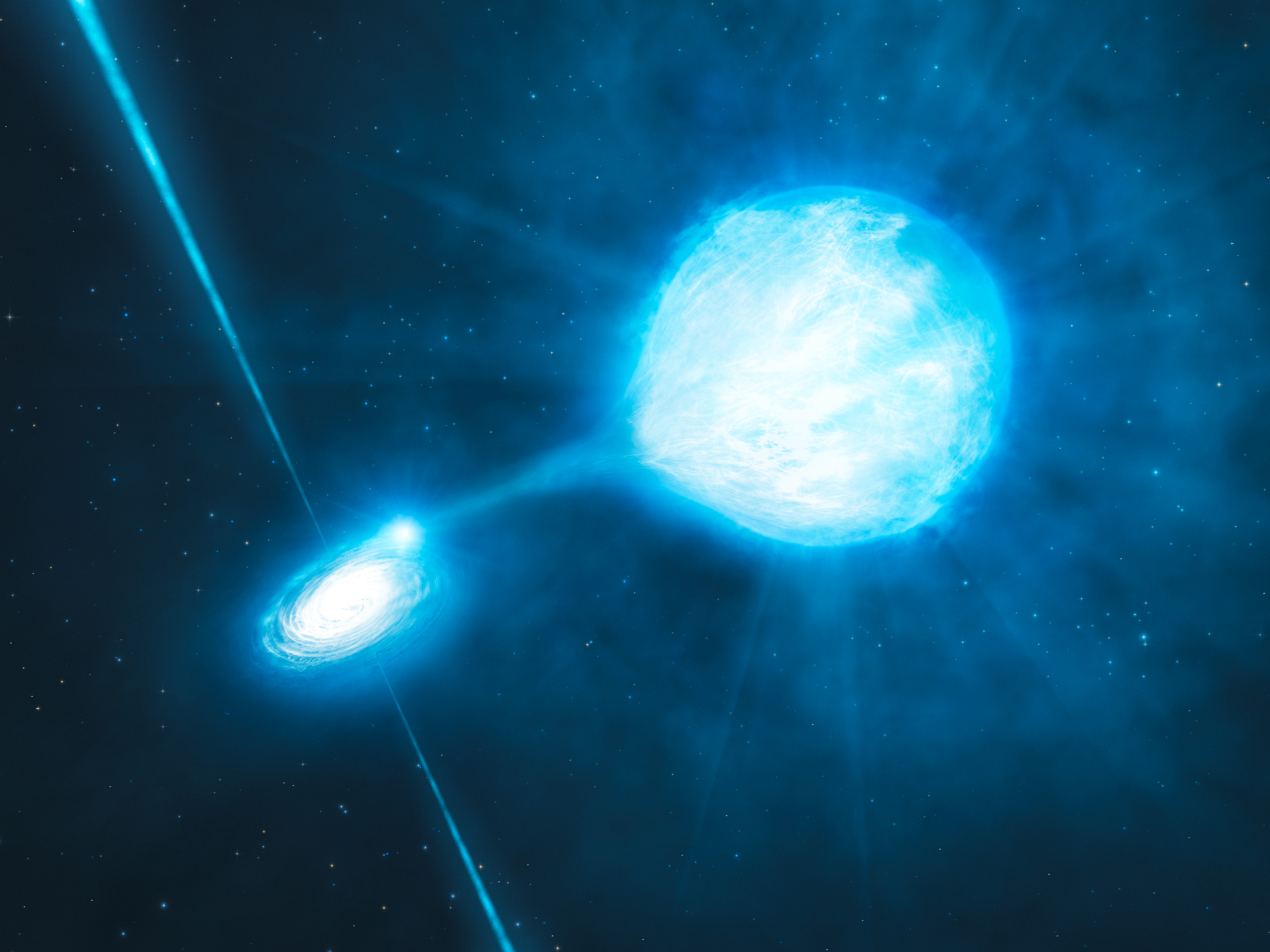 This artist’s impression depicts the newly discovered stellar-mass black hole in the spiral galaxy NGC 300. The black hole has a mass of about twenty times the mass of the Sun and is associated with a Wolf–Rayet star; a star that will become a black hole itself. Thanks to the observations performed with the FORS2 instrument mounted on ESO’s Very Large Telescope, astronomers have confirmed an earlier hunch that the black hole and the Wolf–Rayet star dance around each other in a diabolic waltz, with a period of about 32 hours. The astronomers also found that the black hole is stripping matter away from the star as they orbit each other. How such a tightly bound system has survived the tumultuous phases that preceded the formation of the black hole is still a mystery.